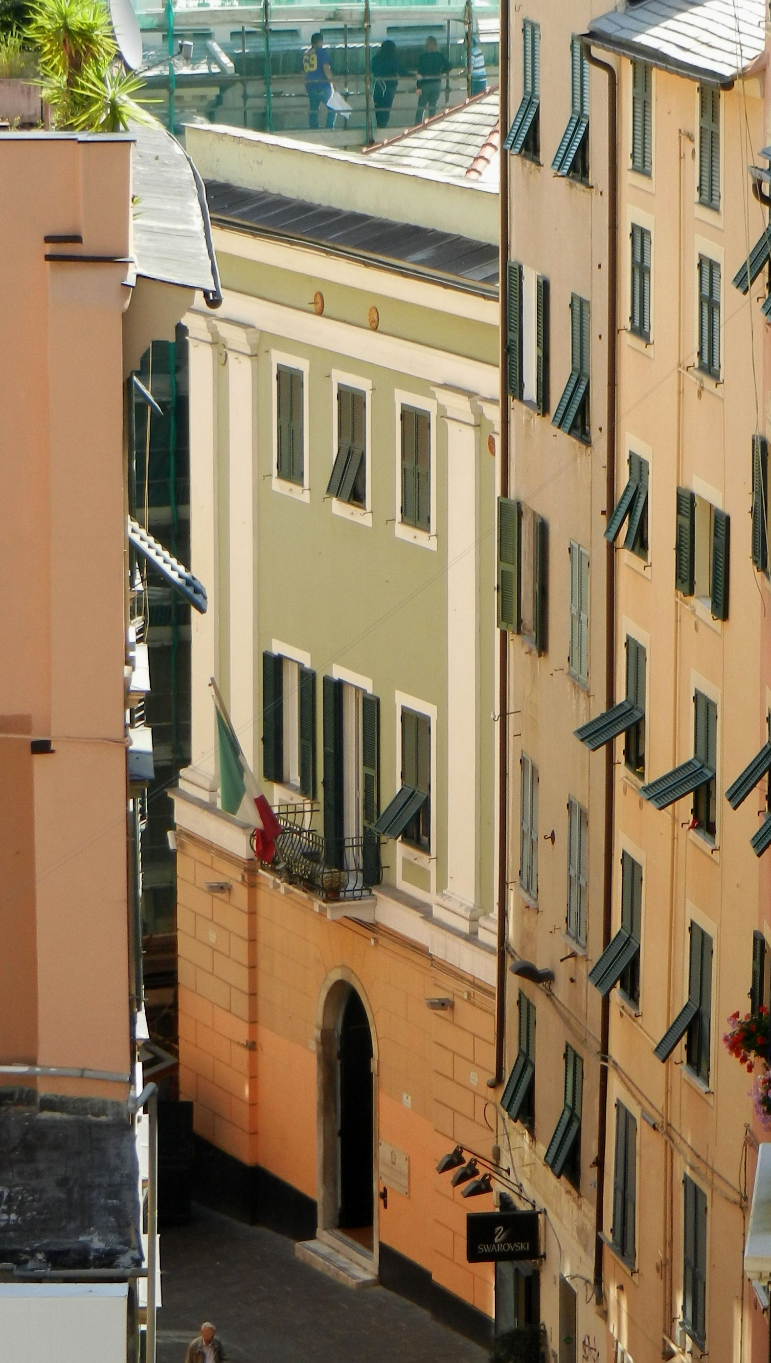 Genoa (Italy), the former church of San Vincenzo